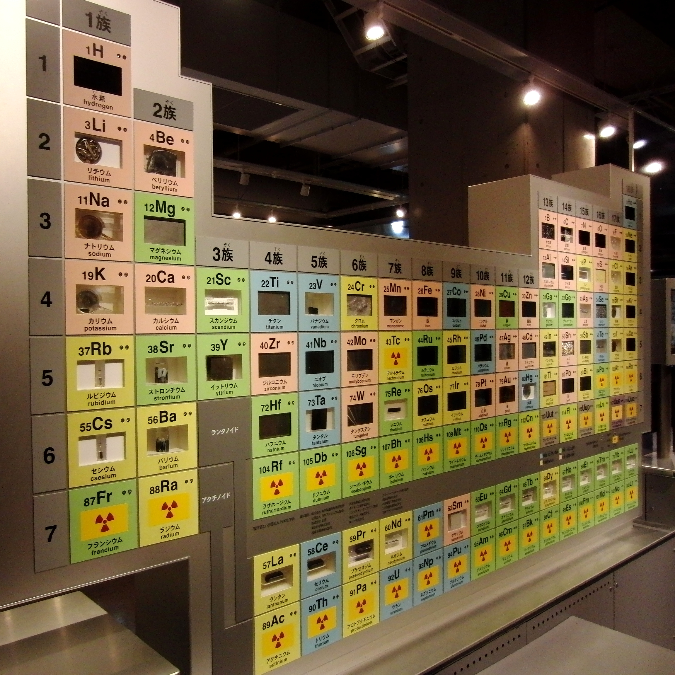 Periodic table using the real things. Exhibit in the National Museum of Nature and Science, Tokyo, Japan.